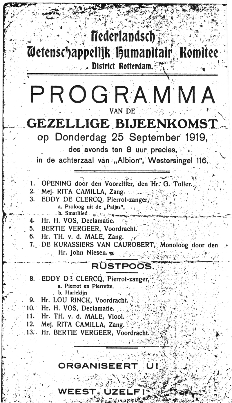 Program for a cultural evening, organized by the district Rotterdam of the Nederlandsch Wetenschappelijk Humanitair Komitee (NWHK), the first Dutch gay rights organization. September 25, 1919.